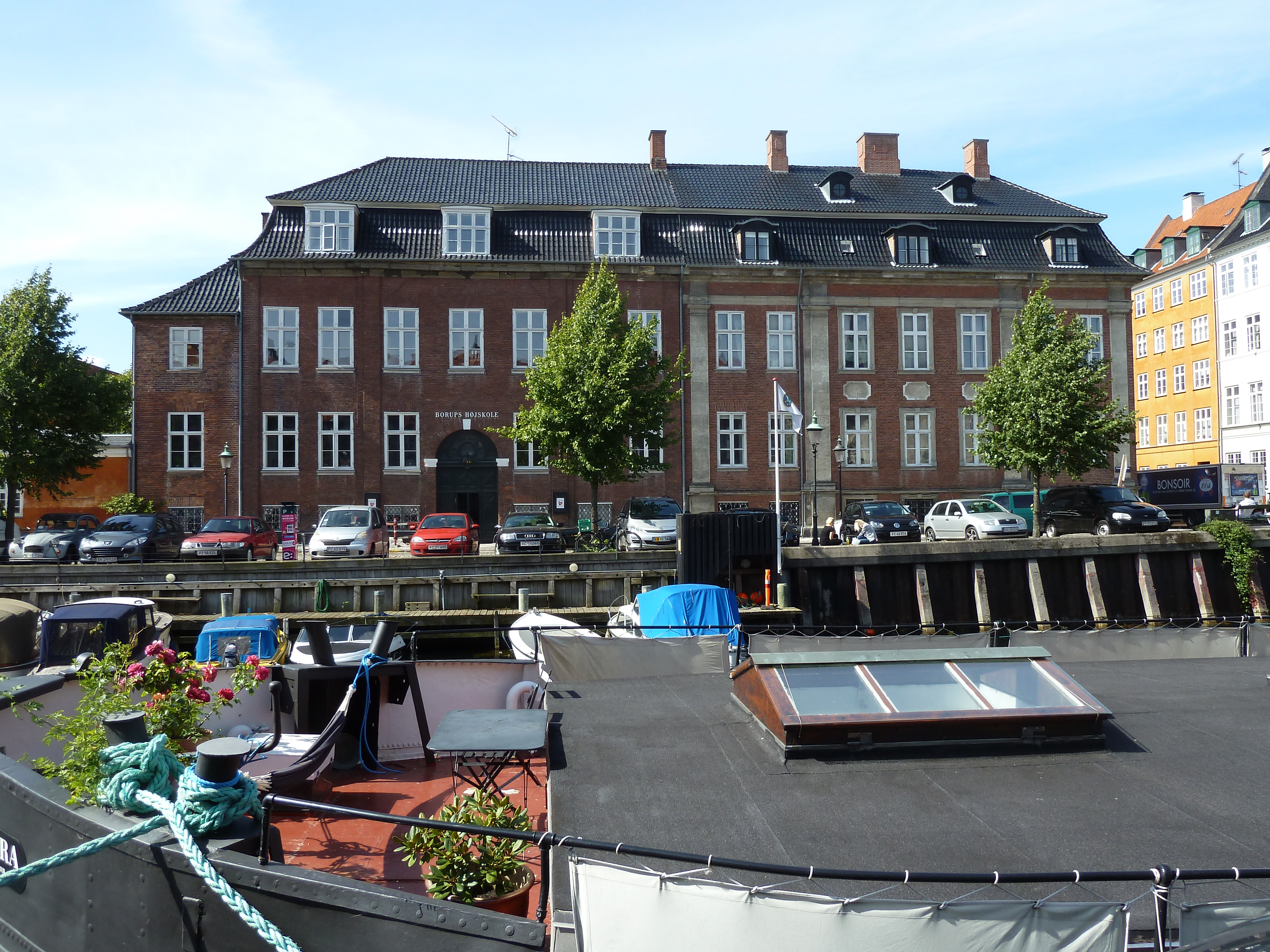 Barchmanns Palæ at Frederiksholms Kanal in Copenhagen, Denmark